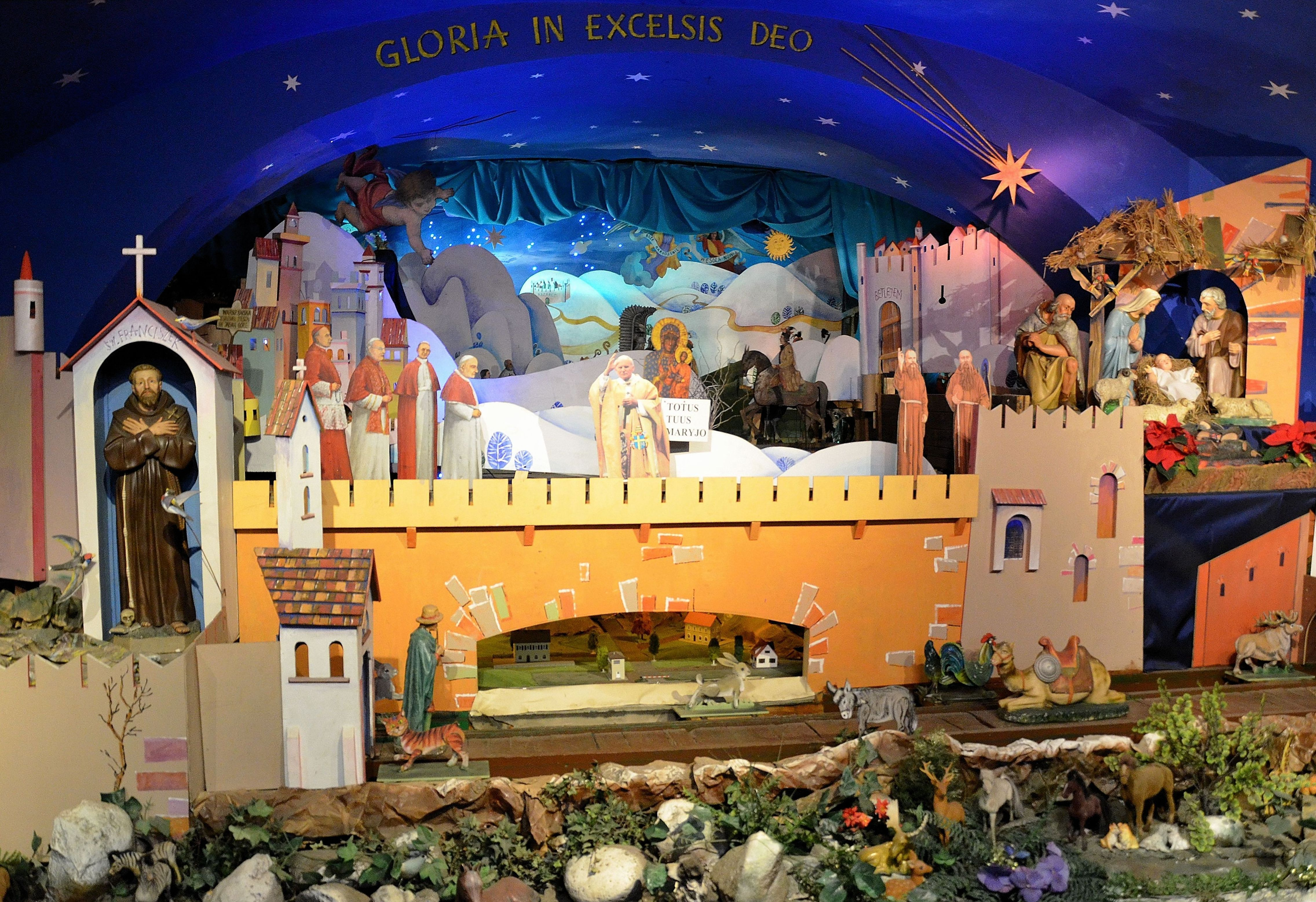 Nativity scene at the Capuchin Church of the Trasfiguration in Warsaw